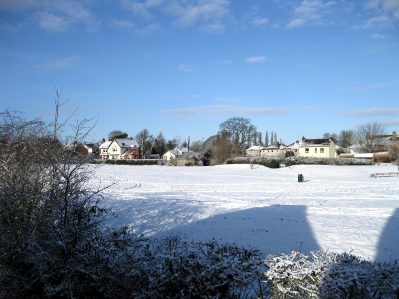 Ravenstone, Leicestershire